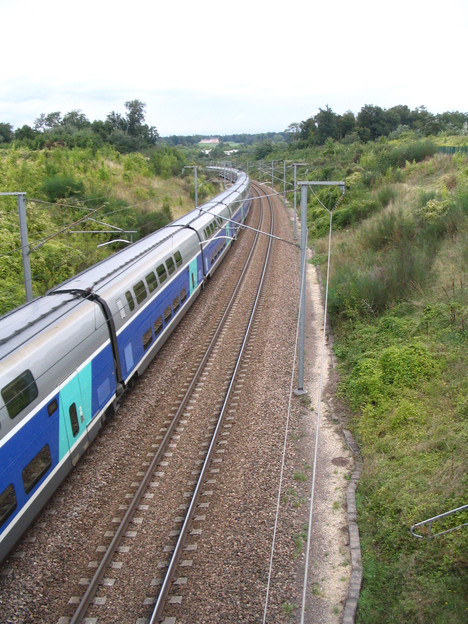 A TGV going towards Paris, on LGV Interconnexion Est, in Villecresnes, Val-de-Marne, France. Picture taken looking in the direction of Paris.